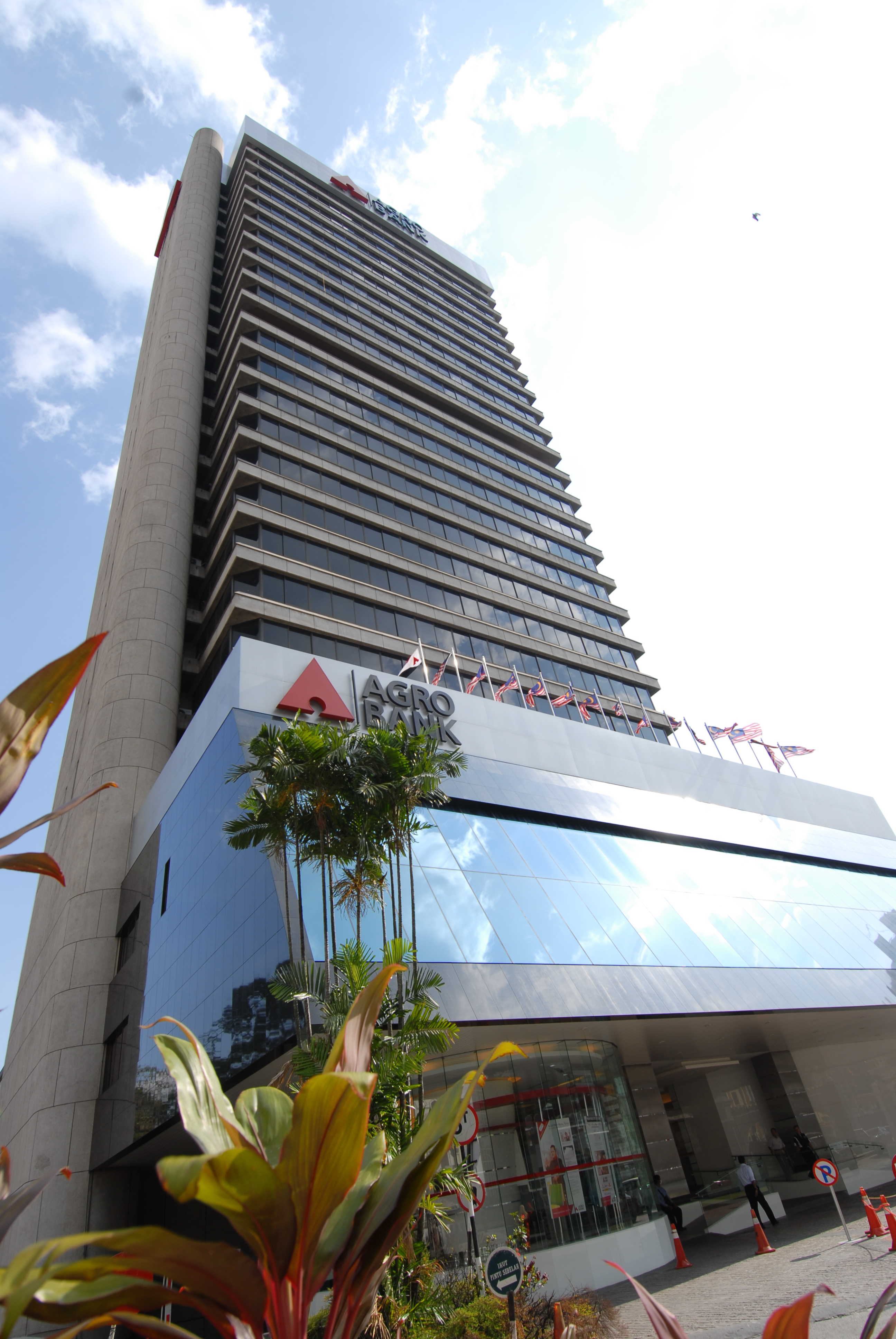 A photo of Agrobank HQ at day time